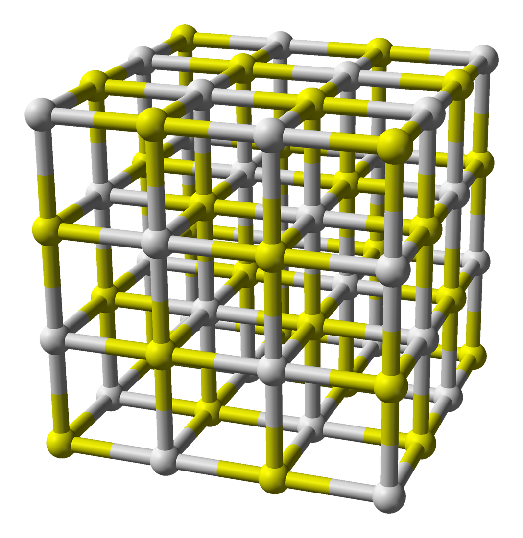 Ball-and-stick model of part of the crystal structure of calcium sulfide, CaS.